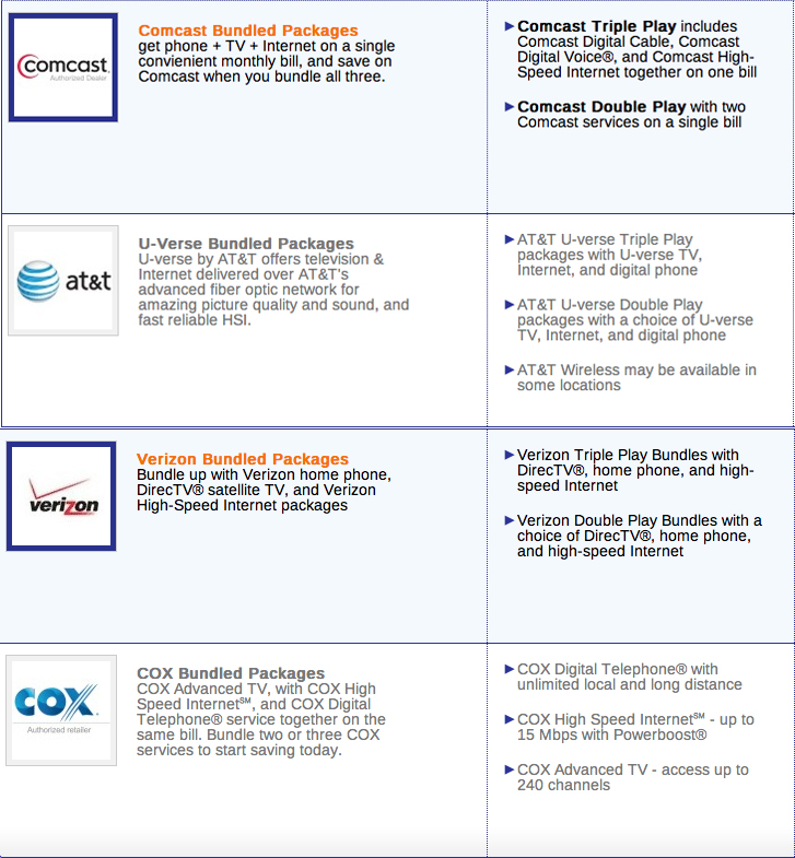 Table